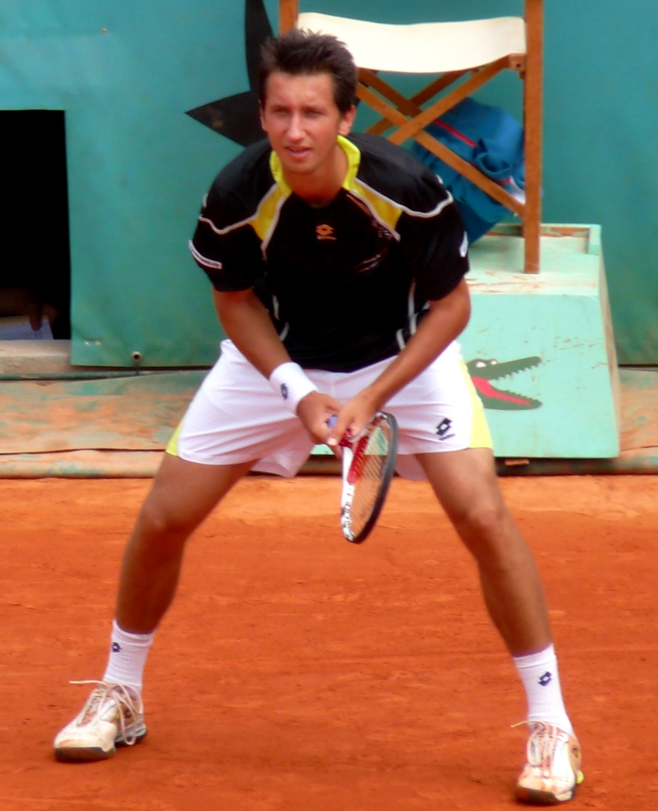 Sergiy Stakhovsky against Novak Đoković in the 2009 French Open second round